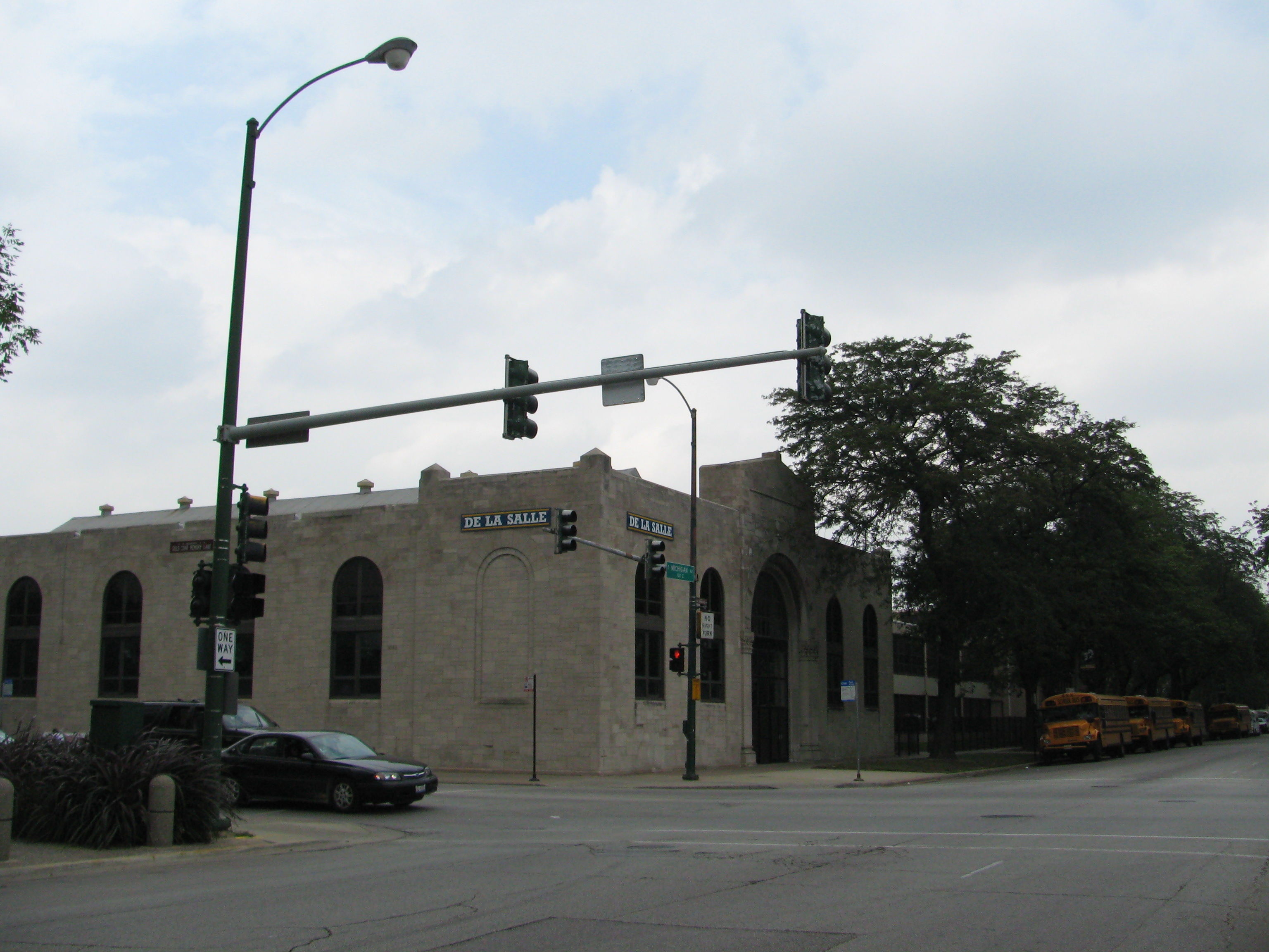 De La Salle Institute (Boys' campus), 35th Street and S. Michigan Avenue, Chicago